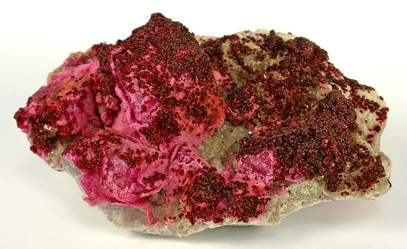 Spherocobaltite, Calcite Locality: Mashamba West Mine, Kolwezi, Western area, Katanga Copper Crescent, Katanga (Shaba), Democratic Republic of Congo (Zaïre) (Locality at ) Size: 8.9 x 5.6 x 3.8 cm. Glittering, sugary, intensely colored dark maroon crystals of Spherocobaltite perched on matrix of light pink calcite.